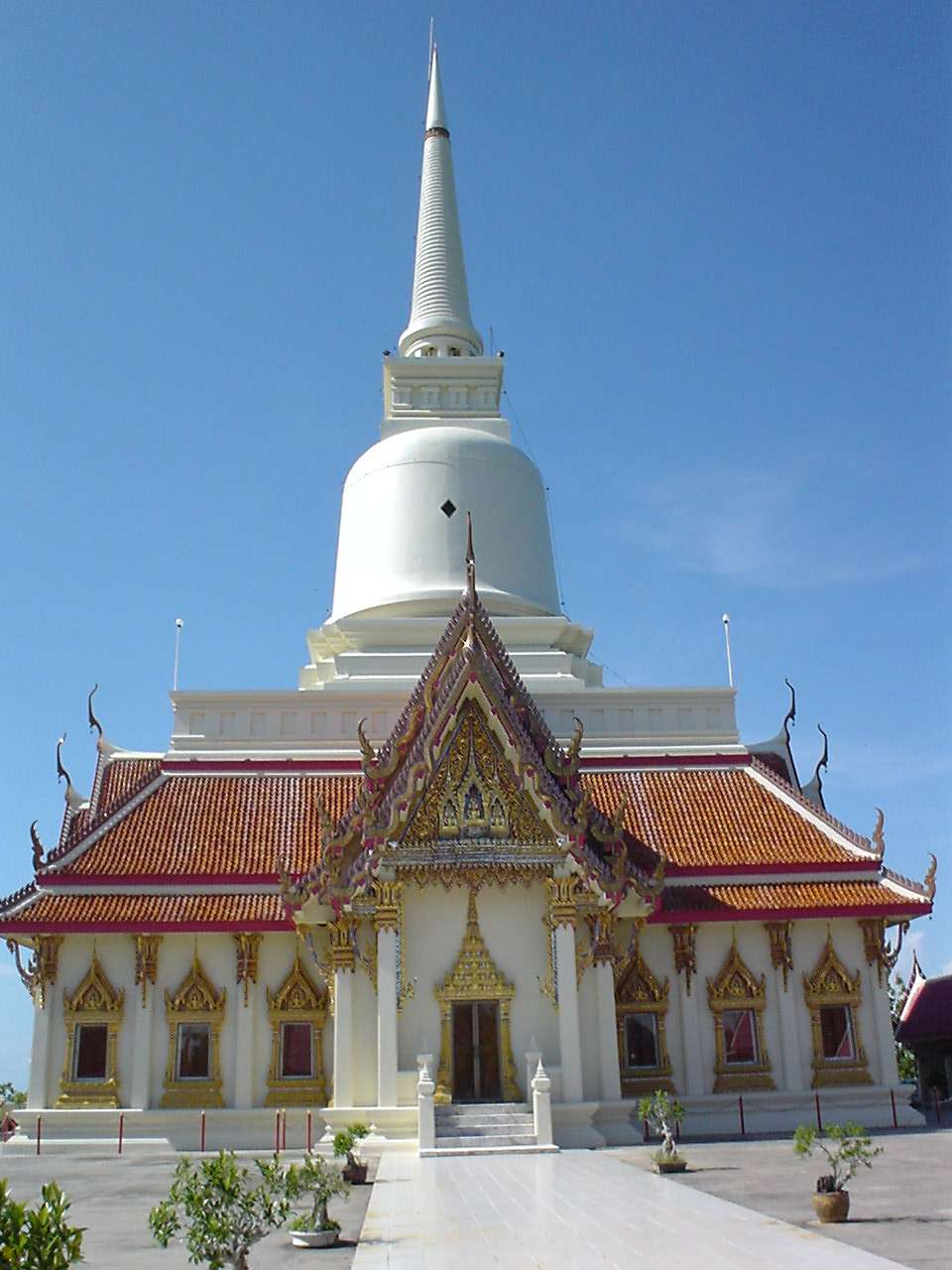 Wat Khao Suwan Pradit (วัดเขาสุวรรณประดิษฐ์), Amphoe Don Sak, Surat Thani province, Thailand Photo taken on November 26 2002 by User:Ahoerstemeier